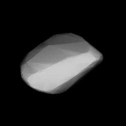 3D convex shape model of 810 Atossa, computed using light curve inversion techniques. J. Hanuš, J. Ďurech, M. Brož, B. D. Warner (June 2011). "A study of asteroid pole-latitude distribution based on an extended set of shape models derived by the lightcurve inversion method". Astronomy and Astrophysics 530: A134. ISSN 0004-6361. arXiv